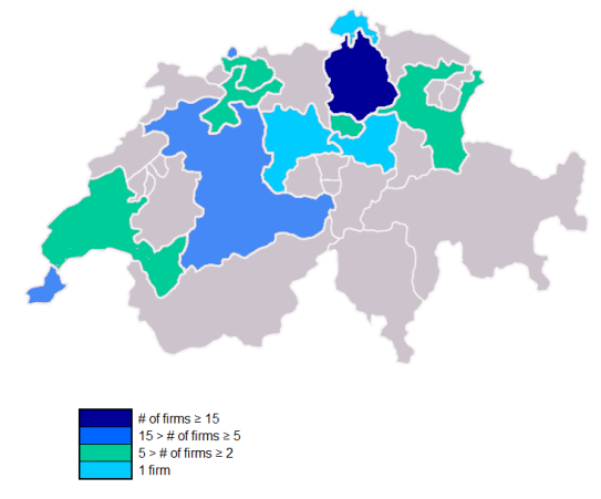 Number of firms included in the SMI Expanded Index by location of HQ